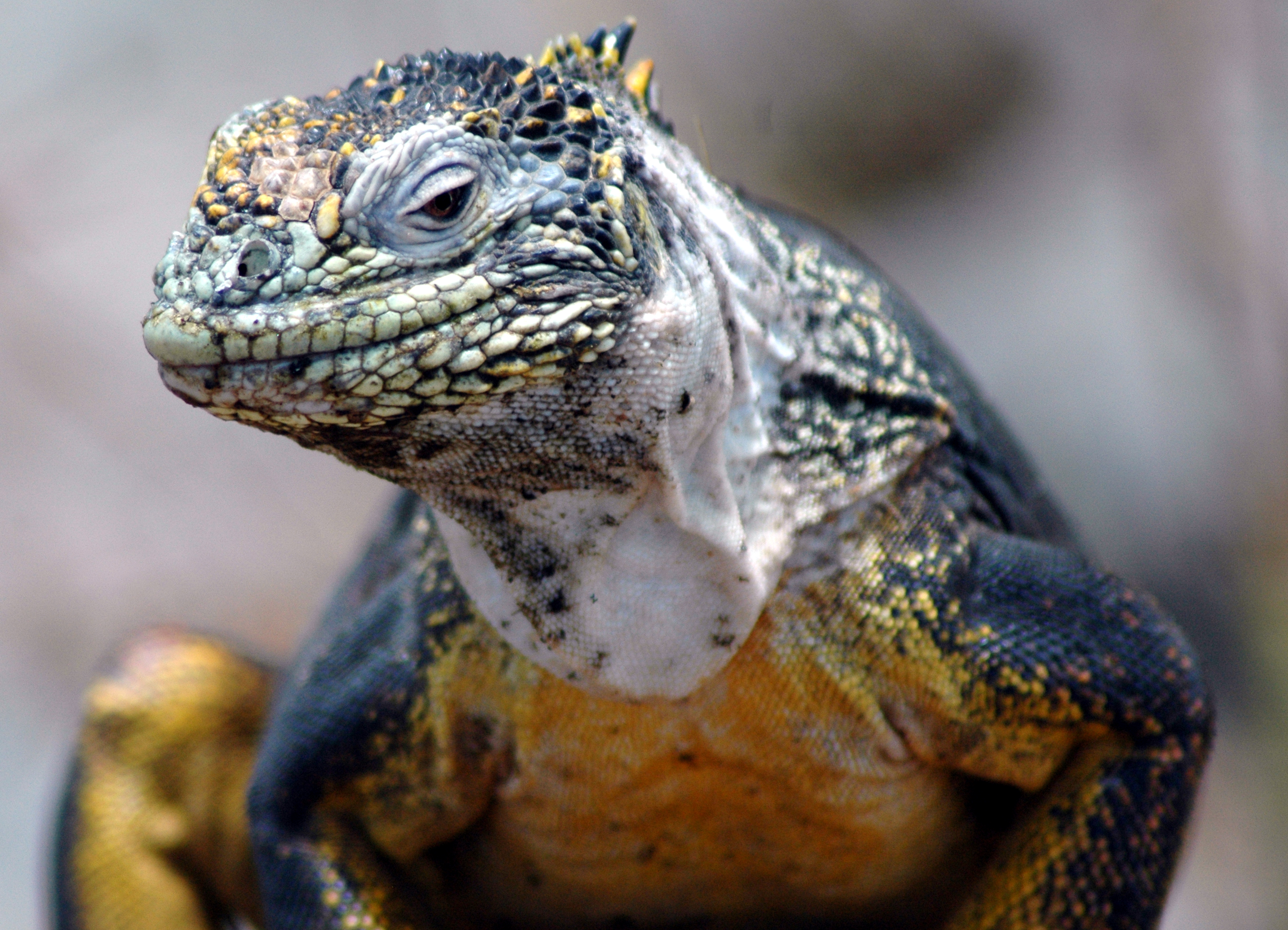 A Galapagos Islands Land Iguana taken in 2008 with a Nikon D70.